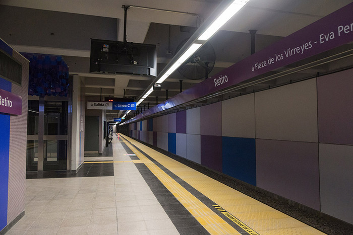 Retiro station during its inauguration.